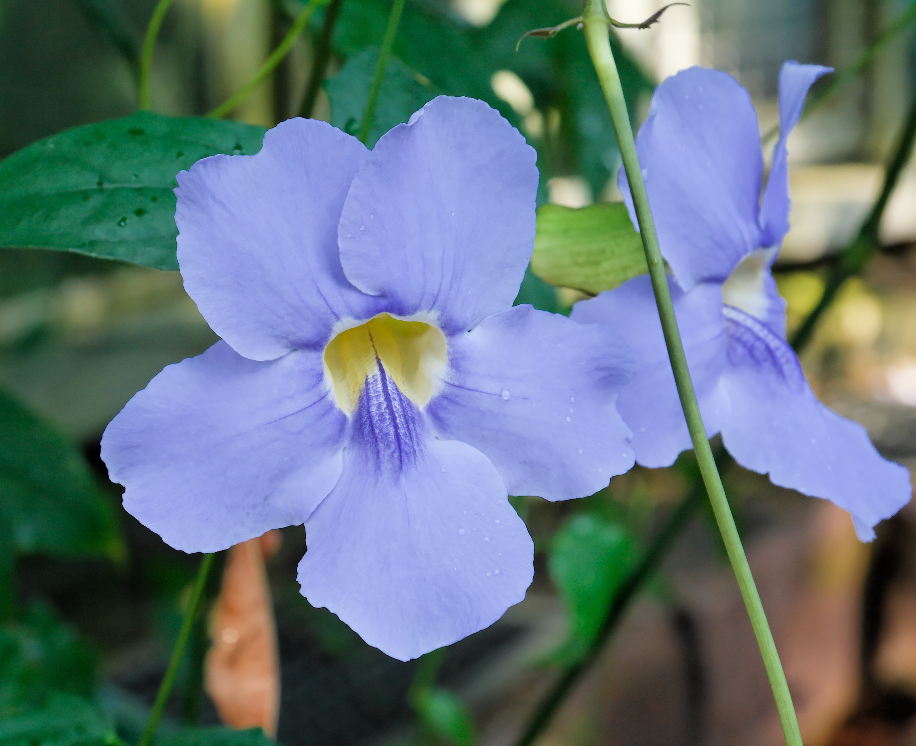 Thunbergia laurifolia in Berlin botanical garden